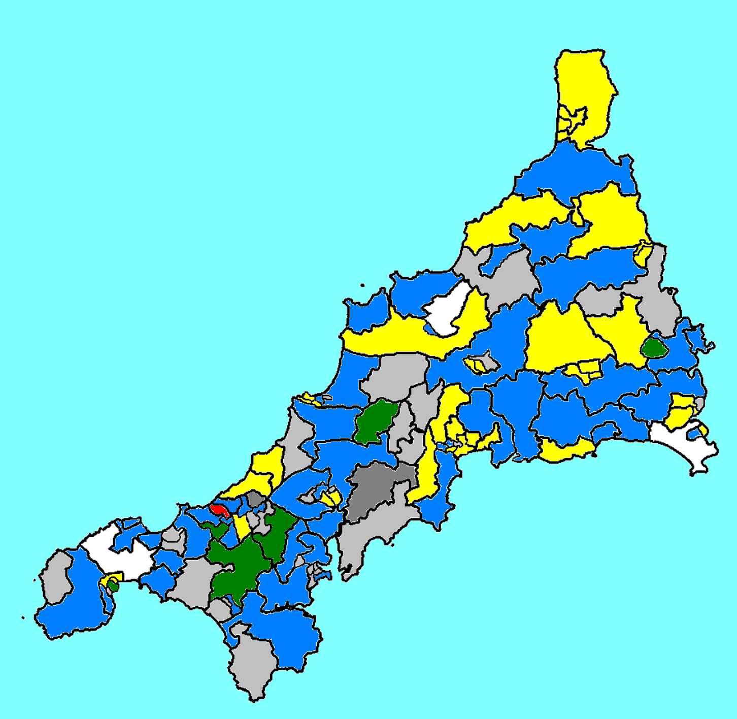 Cornwall Council Electoral Divisions Map coloured by political party. blue - Conservative yellow - Liberal Democrat dark green - Mebyon Kernow red - Labour light grey - Independent group dark grey - standalone independent white - vacant